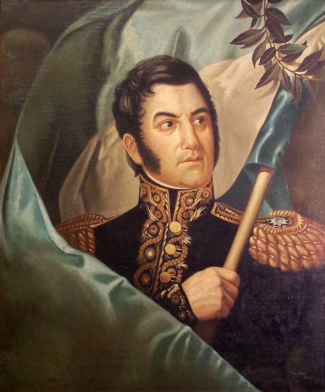 Most canonical portrait of José de San Martín.